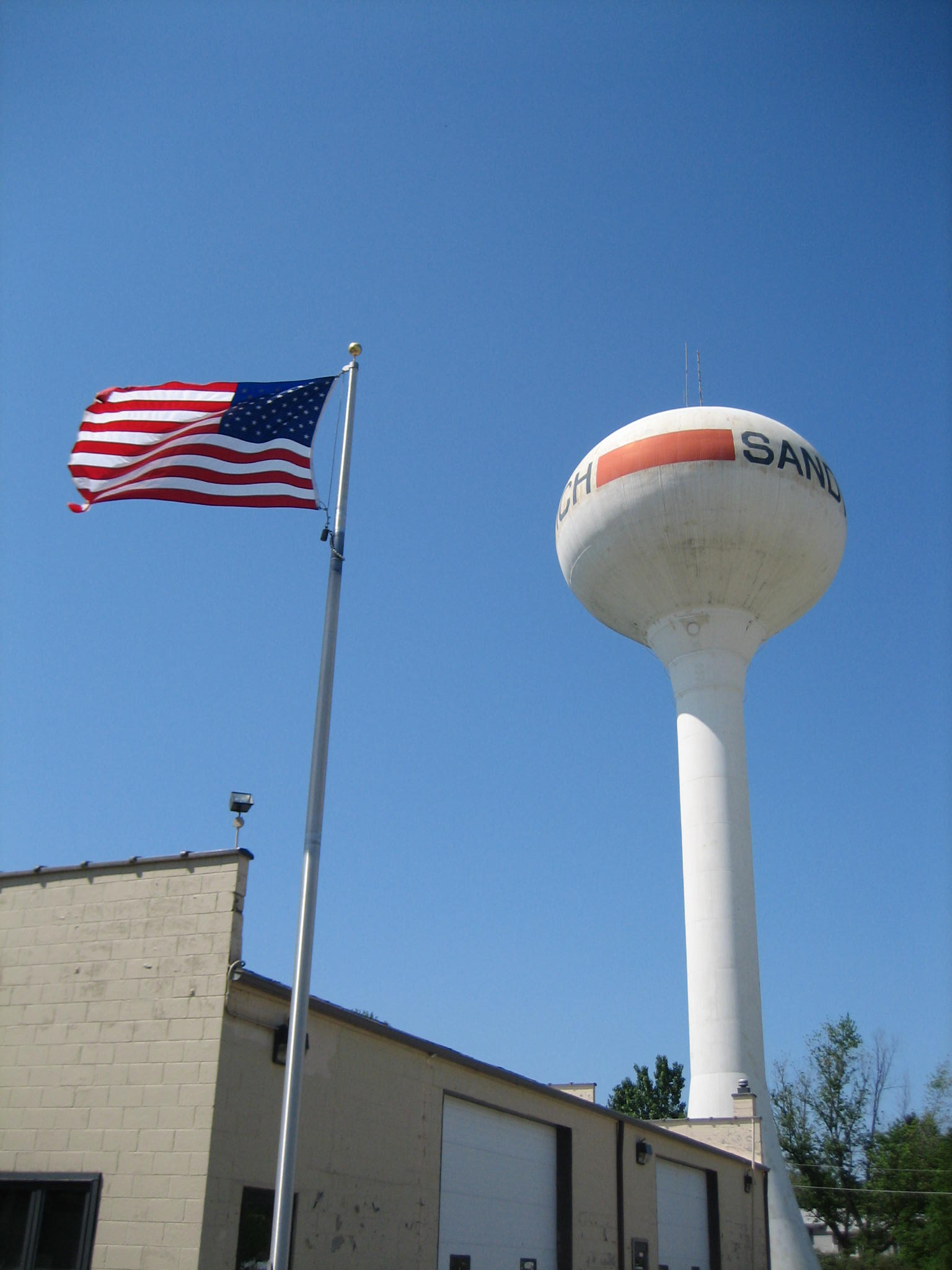 Sandwich Water Tower and Township Hall.